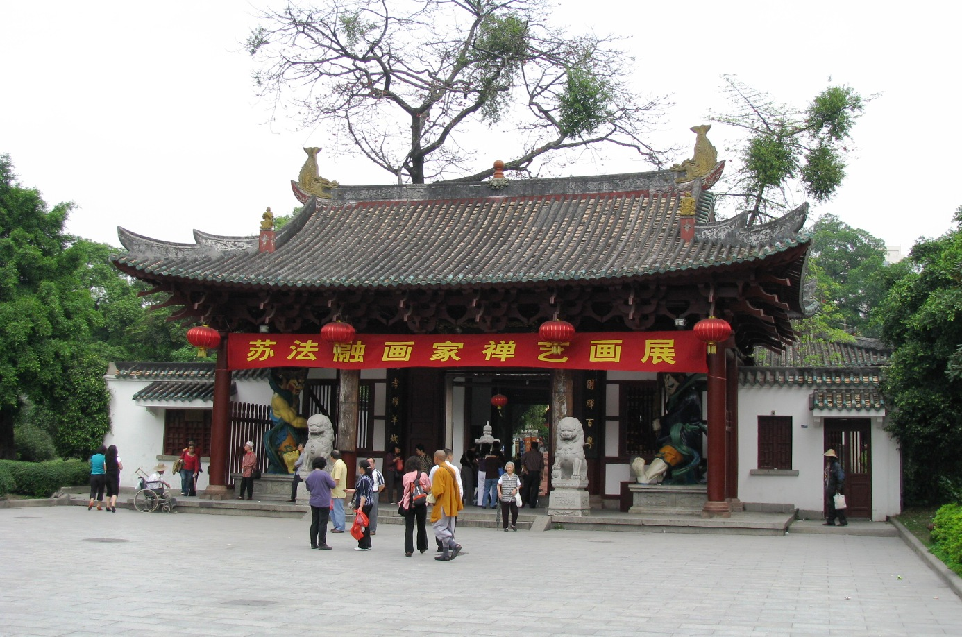 The gate of Guangxiao Si in Guangzhou, China. 中国广州光孝寺大门。